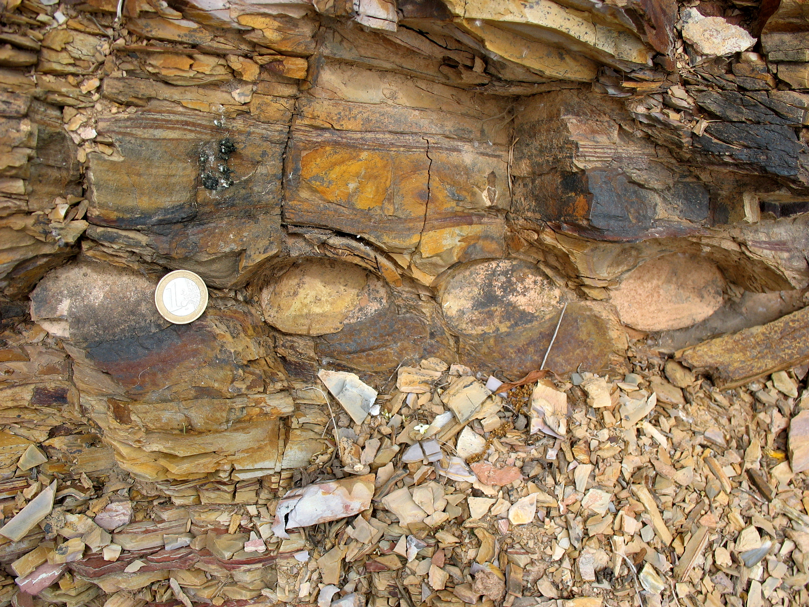 Boudinage. Mira Formation (Baixo Alentejo Flysch Group, late Visean to early Bashkirian). Near the waterfall of Pego do Inferno, Freguesia de Santo Estevão, Tavira, Algarve, Portugal. (Scale coin: 1 EUR, Ø 23,25 mm)